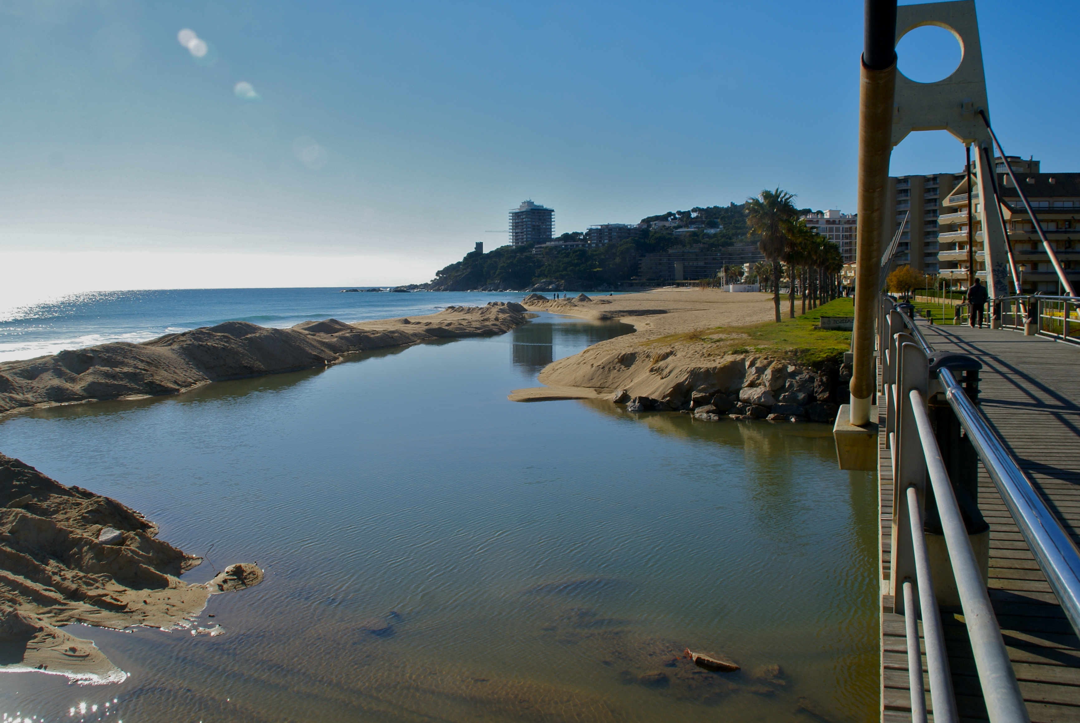 Calonge (Sant Antoni de Calonge), Catalonia: Mouth of the Riera de Calonge in the Mediterranean Sea